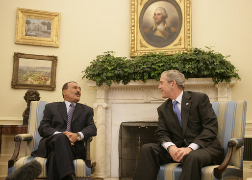 President George W. Bush meets with President Ali Abdullah Saleh of Yemen in the Oval Office Wednesday, May 2, 2007. Said the President, "We had a very good discussion about the neighborhood in which the President lives. And I thanked the President for his strong support in this war against extremists and terrorists."